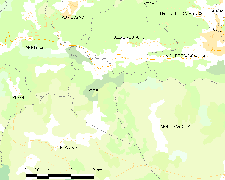 Map commune FR insee code 30016.png - Arre (Gard)